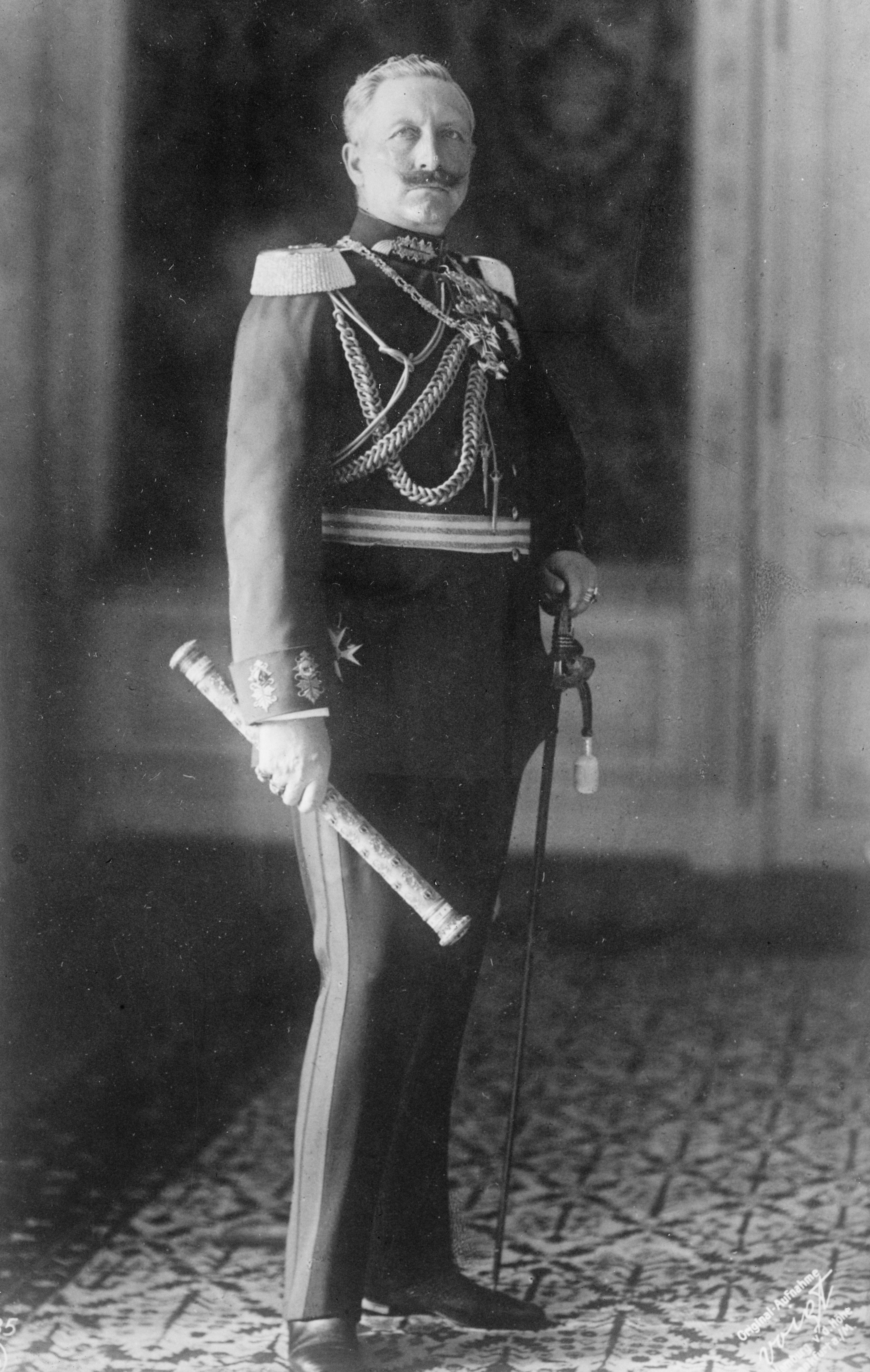 Title: GERMAN ROYAL FAMILY. EMPEROR WILHELM Abstract/medium: 1 negative : glass ; 5 x 7 in. or smaller